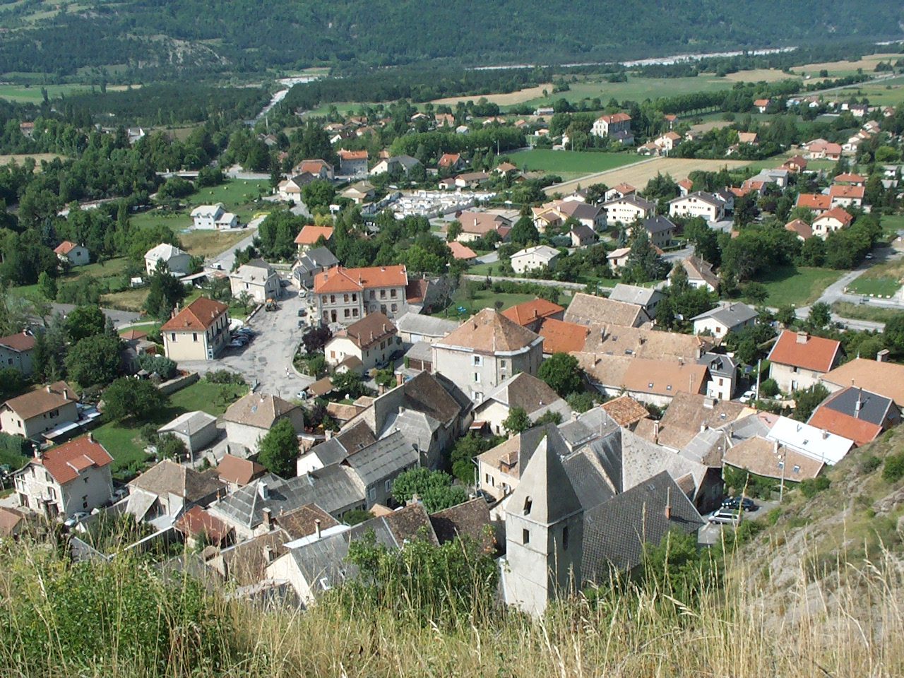 Landscape view of La Roche-des-Arnauds, France